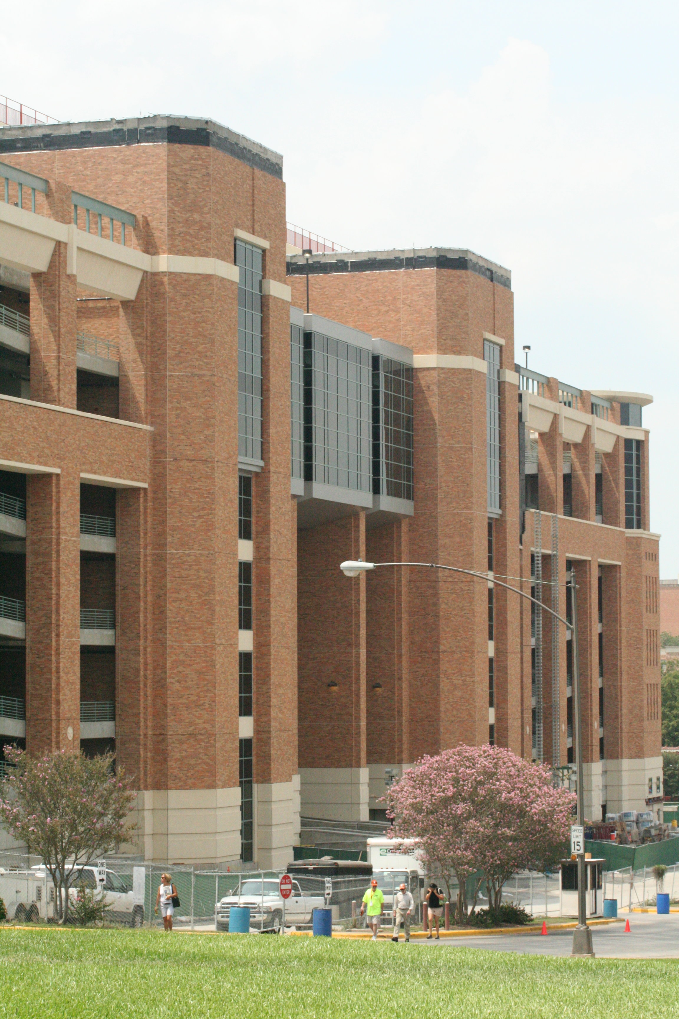 Newly constructed north end zone seating (exterior facade) of [Darrell K. Royal Texas Memorial Stadium] on the campus of University of Texas at Austin